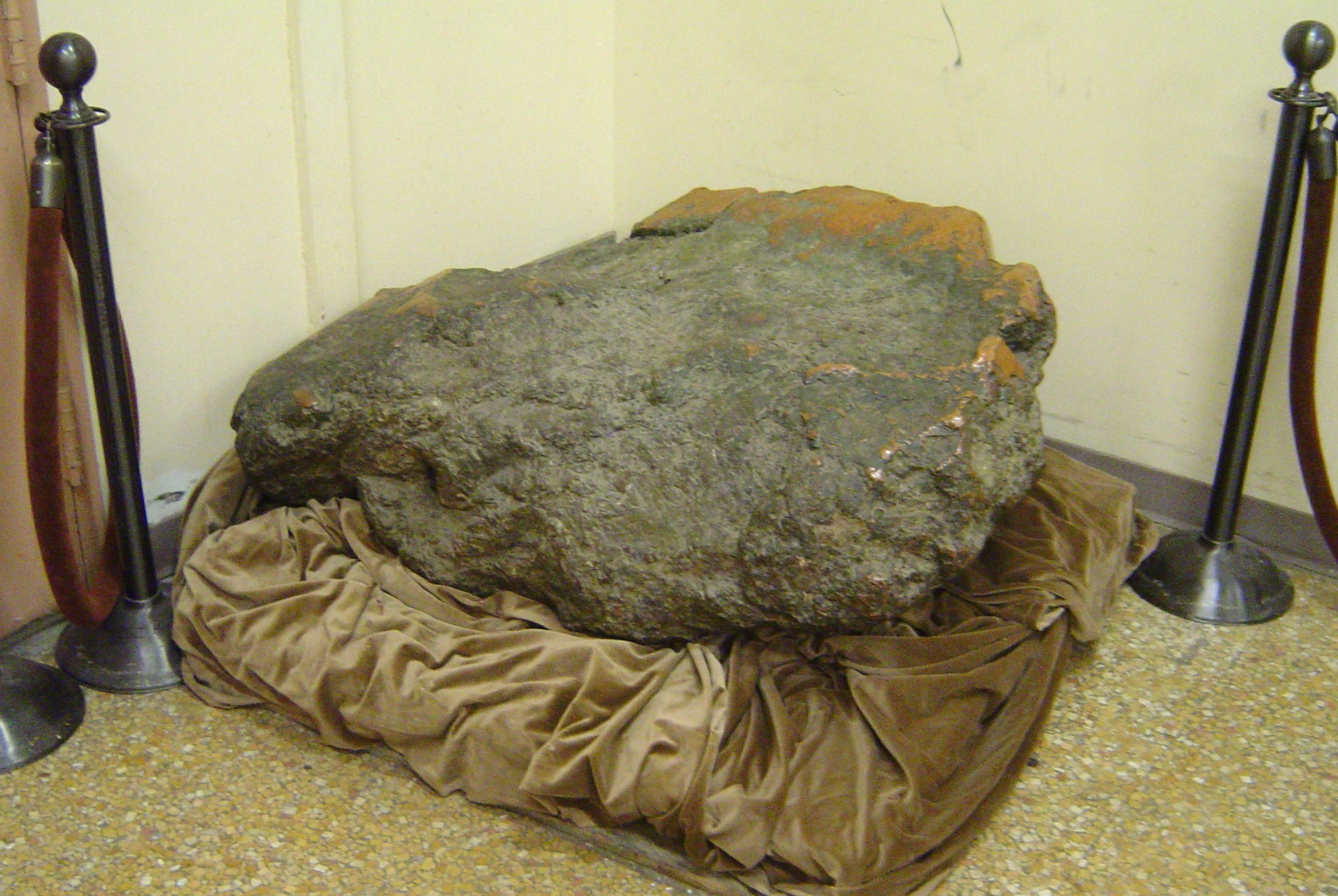 Photograph of the Ontonagon Copper Boulder, off display at the Smithsonian Institution National Museum of Natural History.